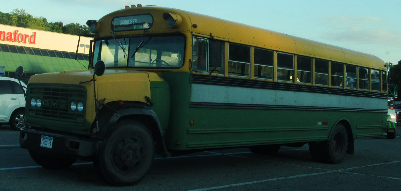 A photograph of a 1966-1970 GMC H6500 school bus with a Thomas Built Saf-T-Liner (conventional) body. This retired school bus is in use as a farm truck. From 1966 to 1970, GMC used a separate chassis from Chevrolet for school bus production, shifting to the heavy-duty H-series (the predecessor of the GMC Brigadier) instead of the medium-duty C-series. Along with GMC engines, the H6500 was offered with a 6V53 Detroit Diesel V6. For 1971, GMC shifted to the medium-duty C-series it offered with Chevrolet, with both divisions producing it through 1991.